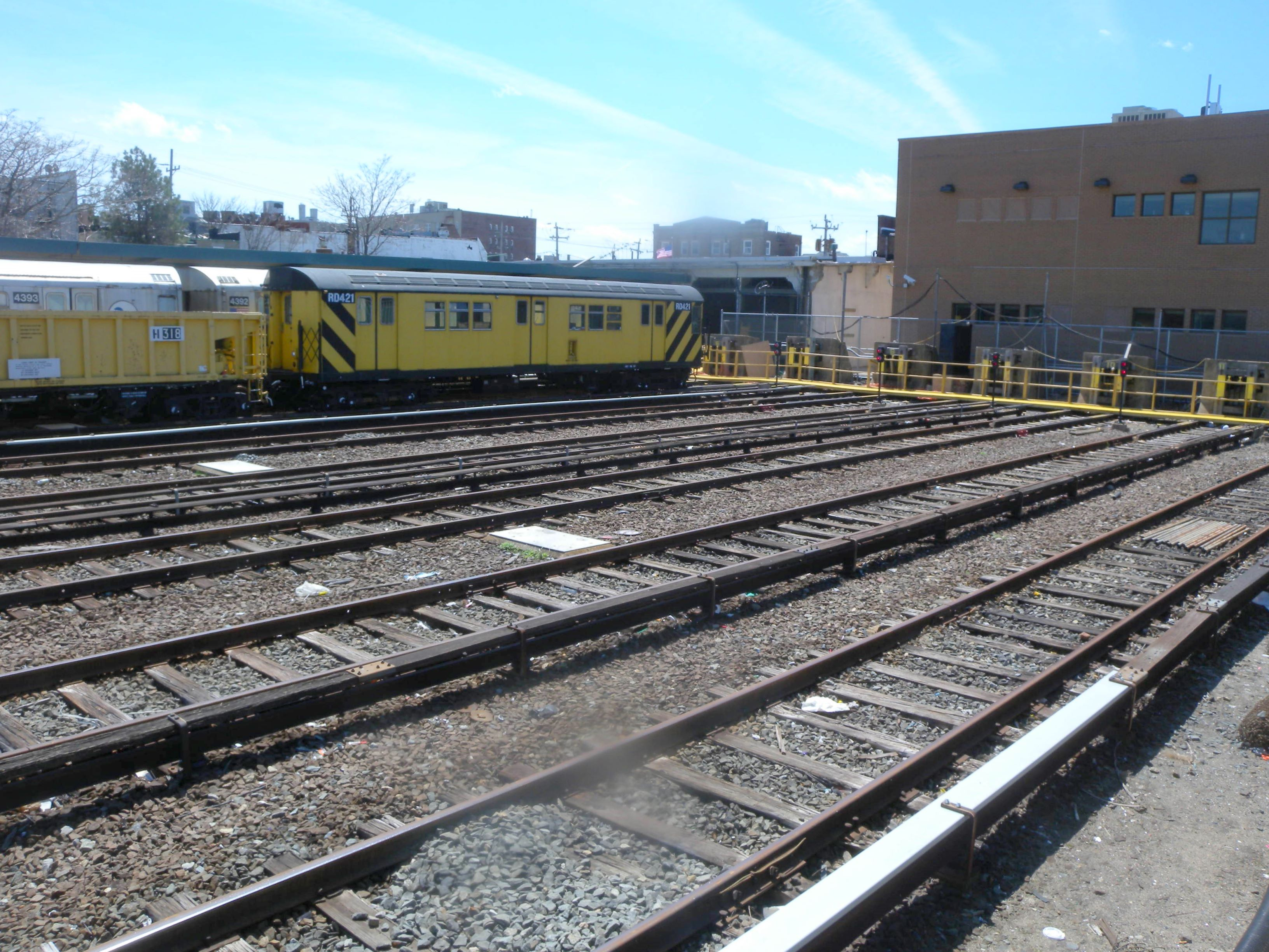 Looking southwest at the end of the Rockaway Yard on a sunny midday.